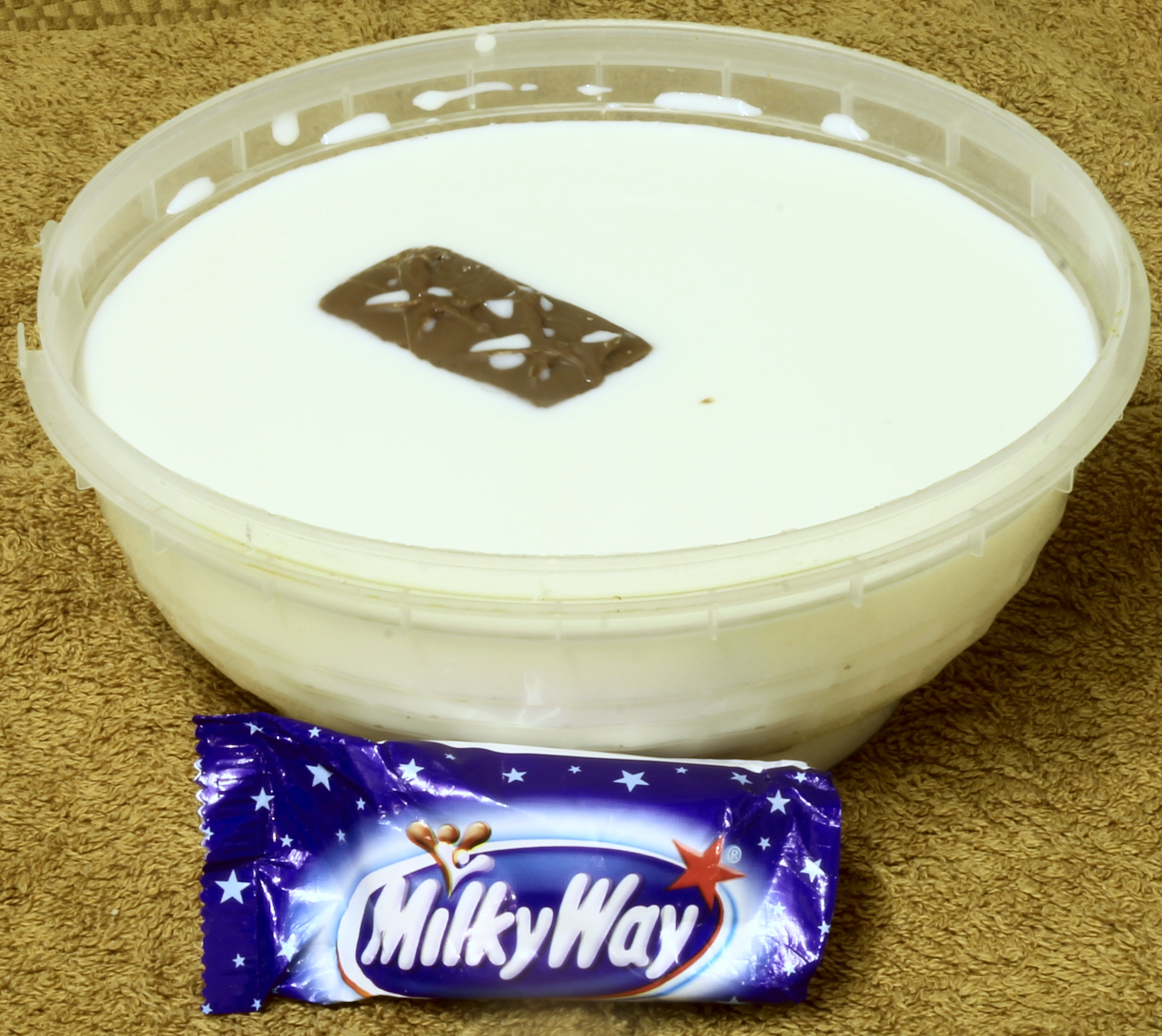 A Milky Way swimming in a dish of milk